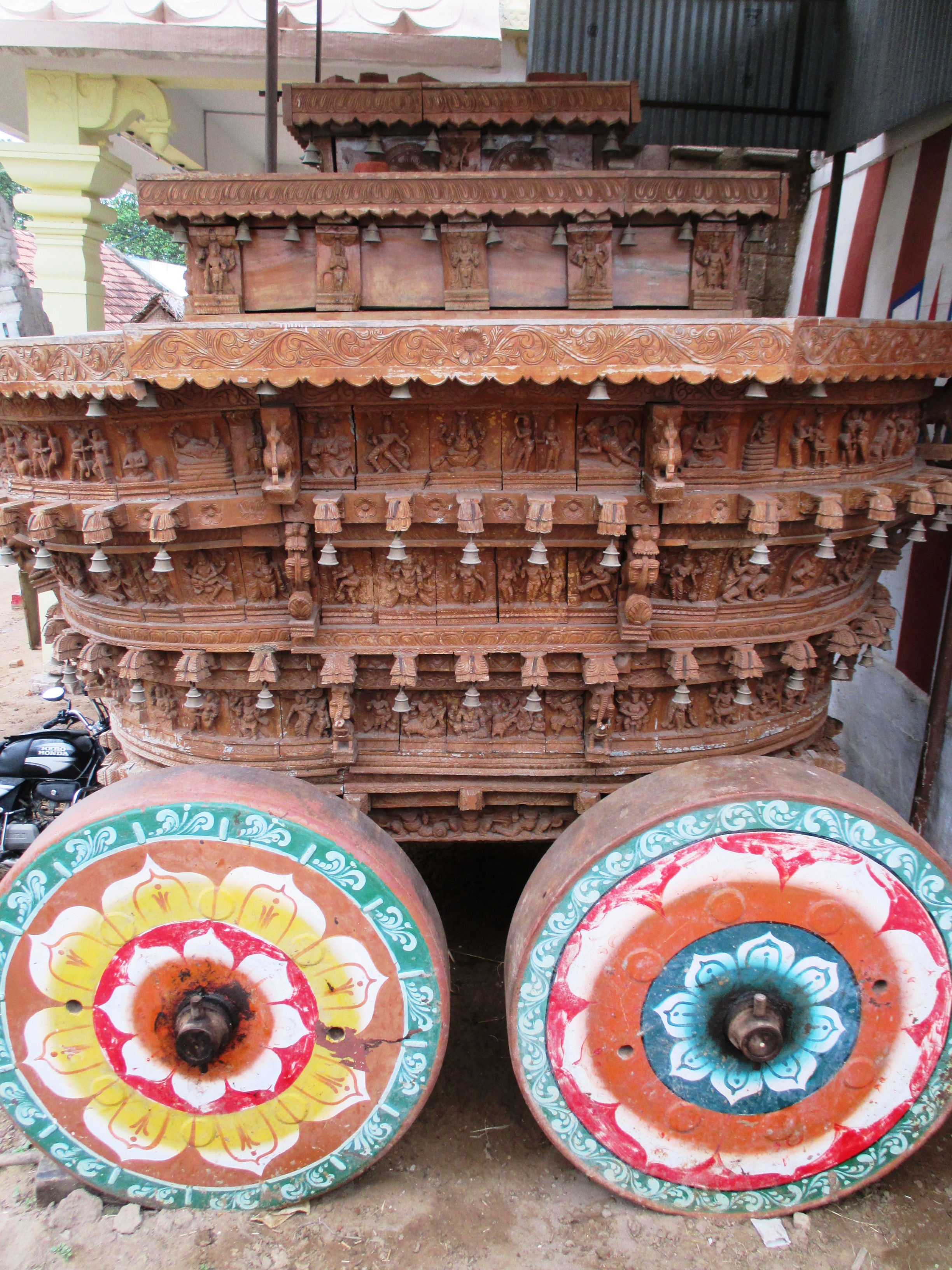 Appakkudathaan Perumal Temple